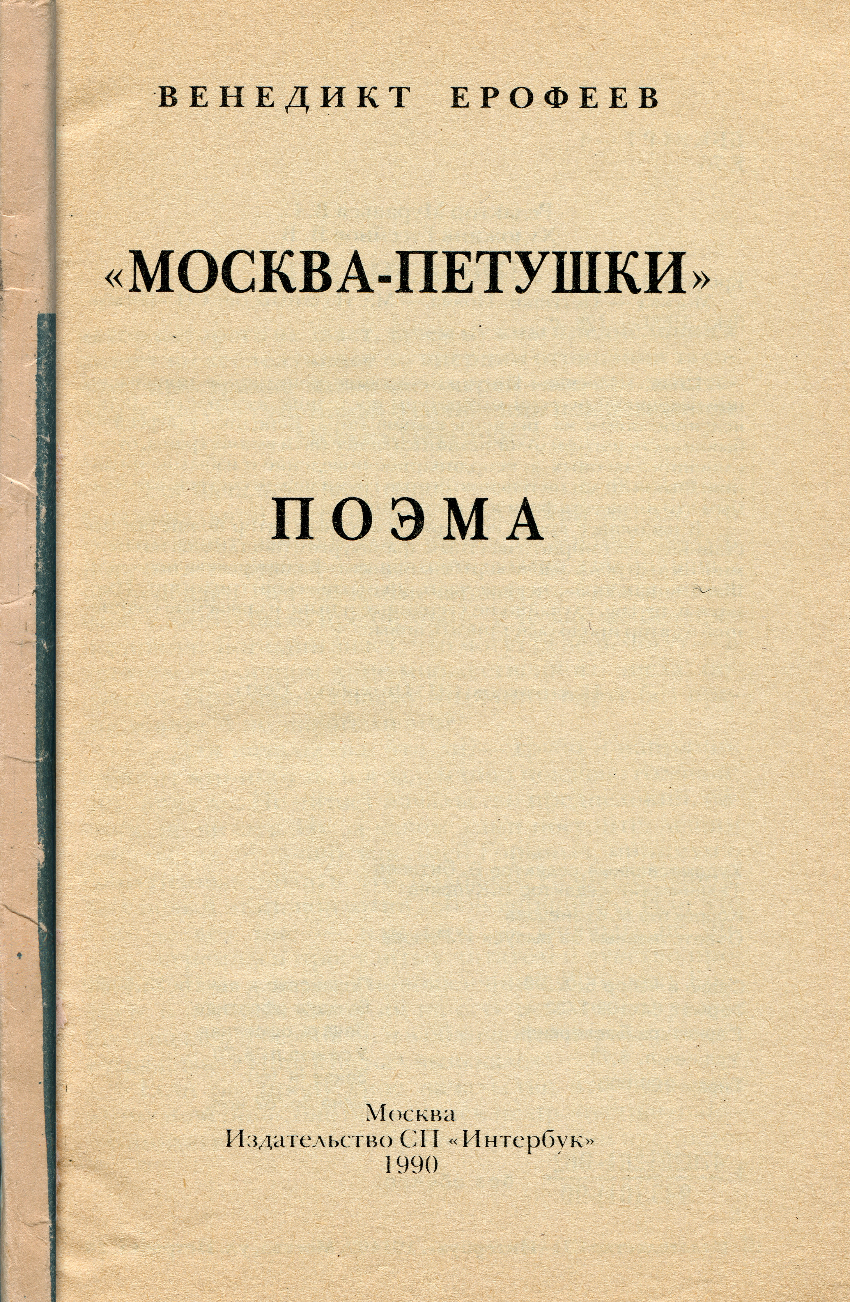 Book. Venedict Yerofeyev